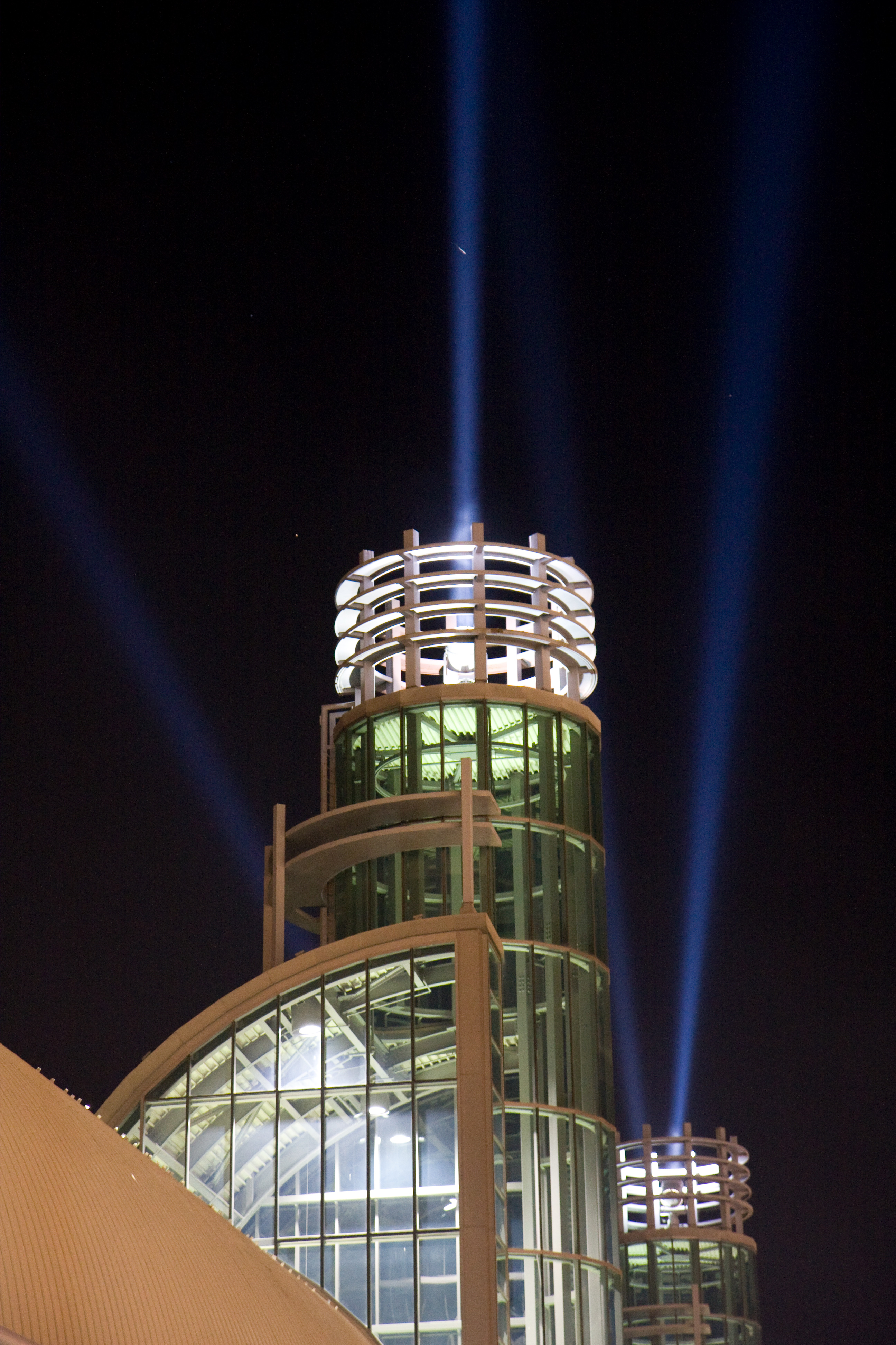 Lights at night during the 2008 Canadian National Exhibition at the Direct Energy Centre in Toronto.